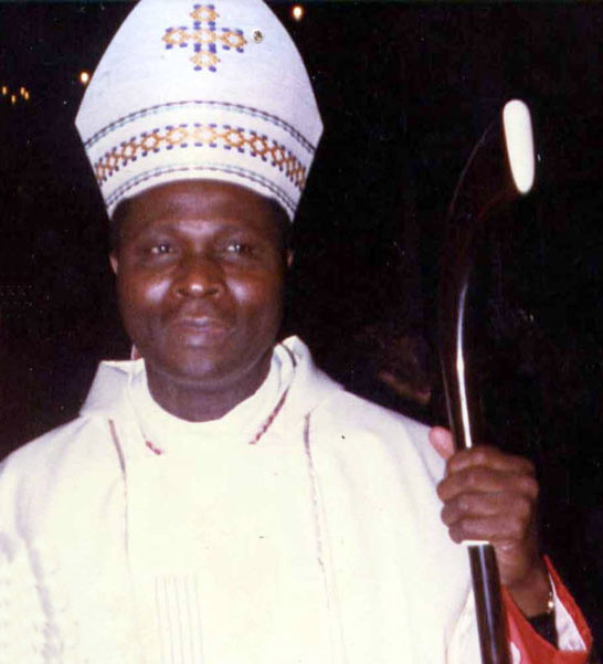 Cardinal Bernardin Gantin